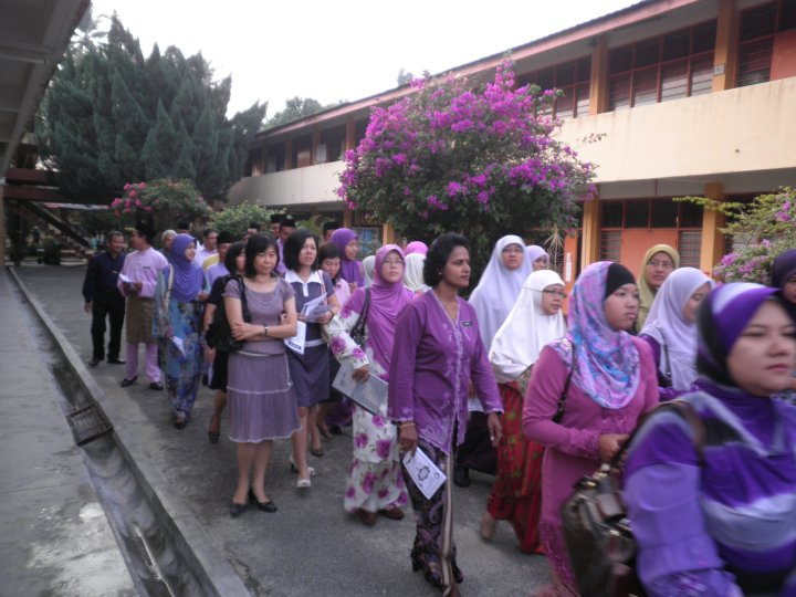 teachers are getting ready for Teacher's day celebration in SMKP